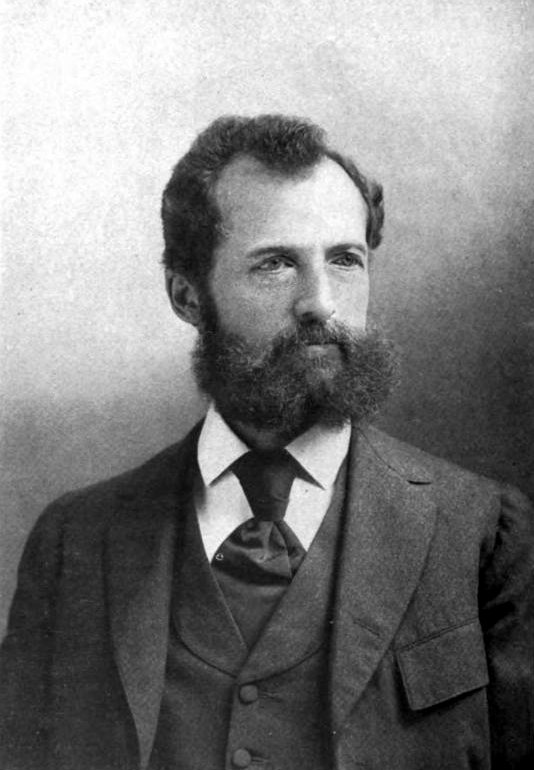 Ottmar Mergenthaler, a German-American linotype inventor